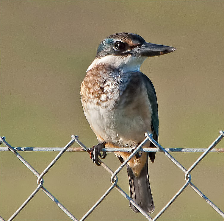 Two members of the kingfisher family occur in New Zealand, the introduced Australian kookaburra, which has a very restricted range in the northern part of the North Island, and the widely distributed native kingfisher or kotare of the Maoris. The New Zealand bird, Halcyon sancta vagans, is the local race of a species that occurs from New Zealand to Australia, New Guinea, Eastern Indonesia, the Solomon Islands, and New Caledonia, and it differs from the other local races (or subspecies) in minor characteristics, such as bill size, intensity of the colour of the plumage, and so on. Kingfishers are to be found on and about the three main islands and the Kermadecs, but not on the Chathams or the sub-Antarctic islands. Their habitat is open country or forest edge and they are common near lakes, rivers, estuaries, and the sea. European settlement has benefited the species by incidentally supplying it with a greater variety of food than it originally enjoyed, with more extensive feeding areas and a greater choice of nesting sites. Diet varies with locality; kingfishers living near the coast eat a considerable quantity of crabs from mud flats, and shrimps and small fish from pools. Away from the sea the diet consists of worms, insects, lizards, and freshwater fish. In both places fruits, small birds, and mice are taken when the opportunity arises. Nests are made in cavities dug in rotting trees or clay banks and a clutch consists of four to five white eggs. The most characteristic call is a staccato “kek, kek, kek, kek”. During the breeding season a bubbling “kree, kree” is heard. Both sexes are alike in appearance, being deep green and ultra-marine above, buff below, with a broad buff collar. The black bill is large and powerful.